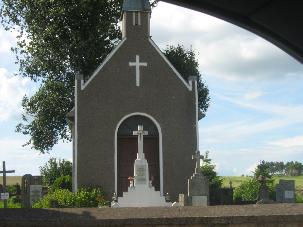 Cemetery in Jonava district